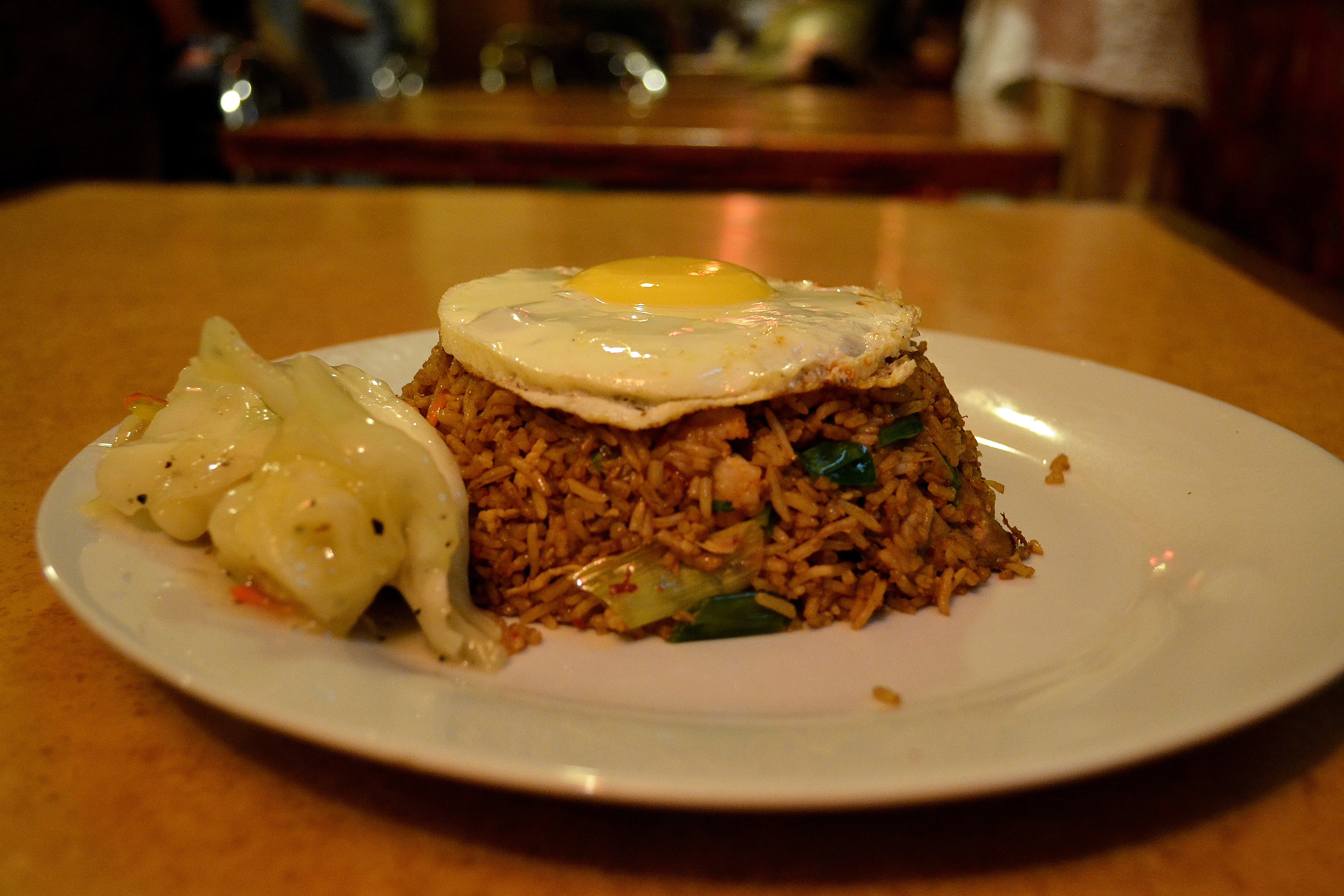 Nice Nasigroni Rice at Dinemore Restuarant, Colombo, Sri Lanka